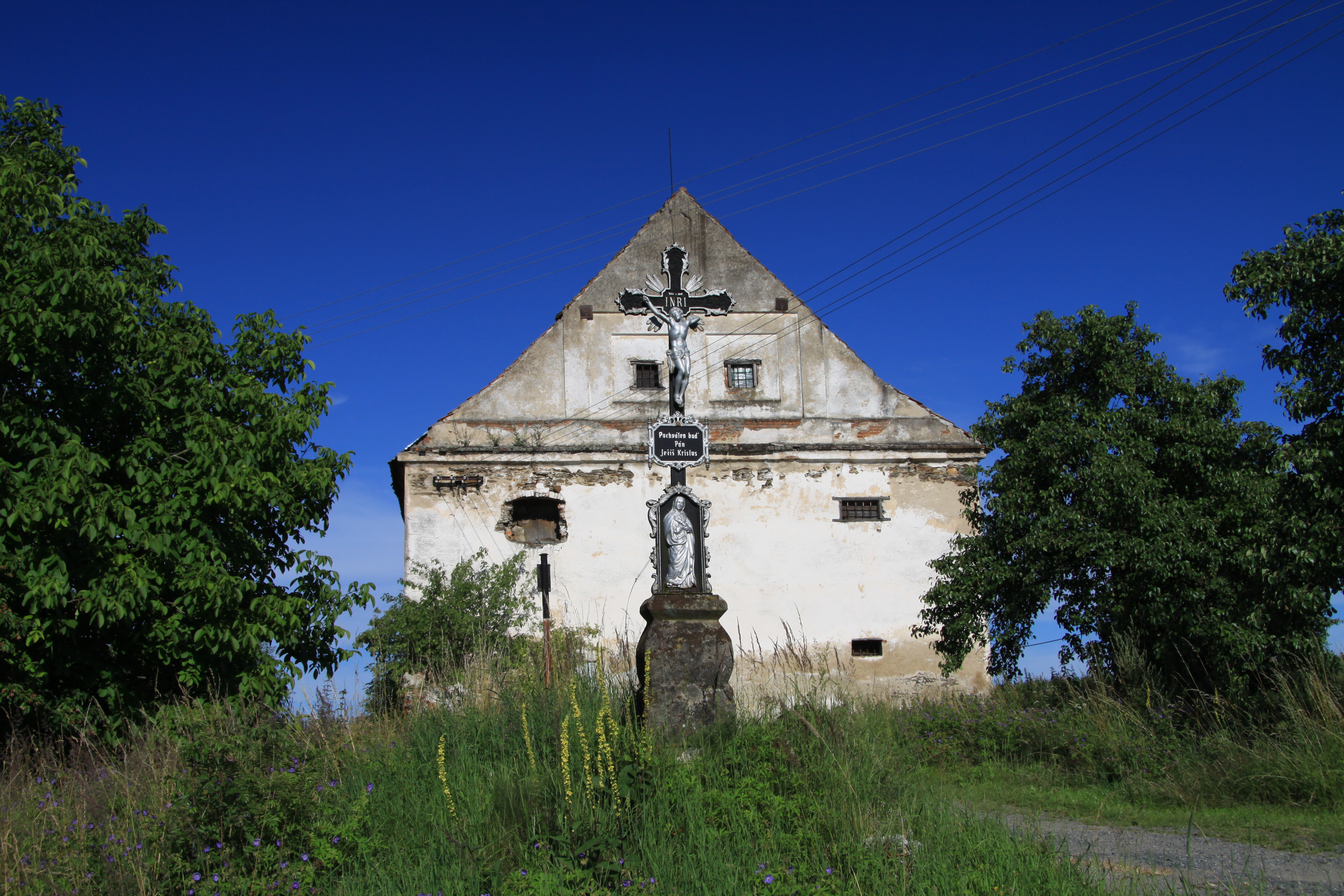 Wayside cross near Hroby village in Tábor District, Czech Republic